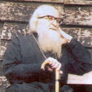 Elder Sophrony (Sakharov) of Athos.